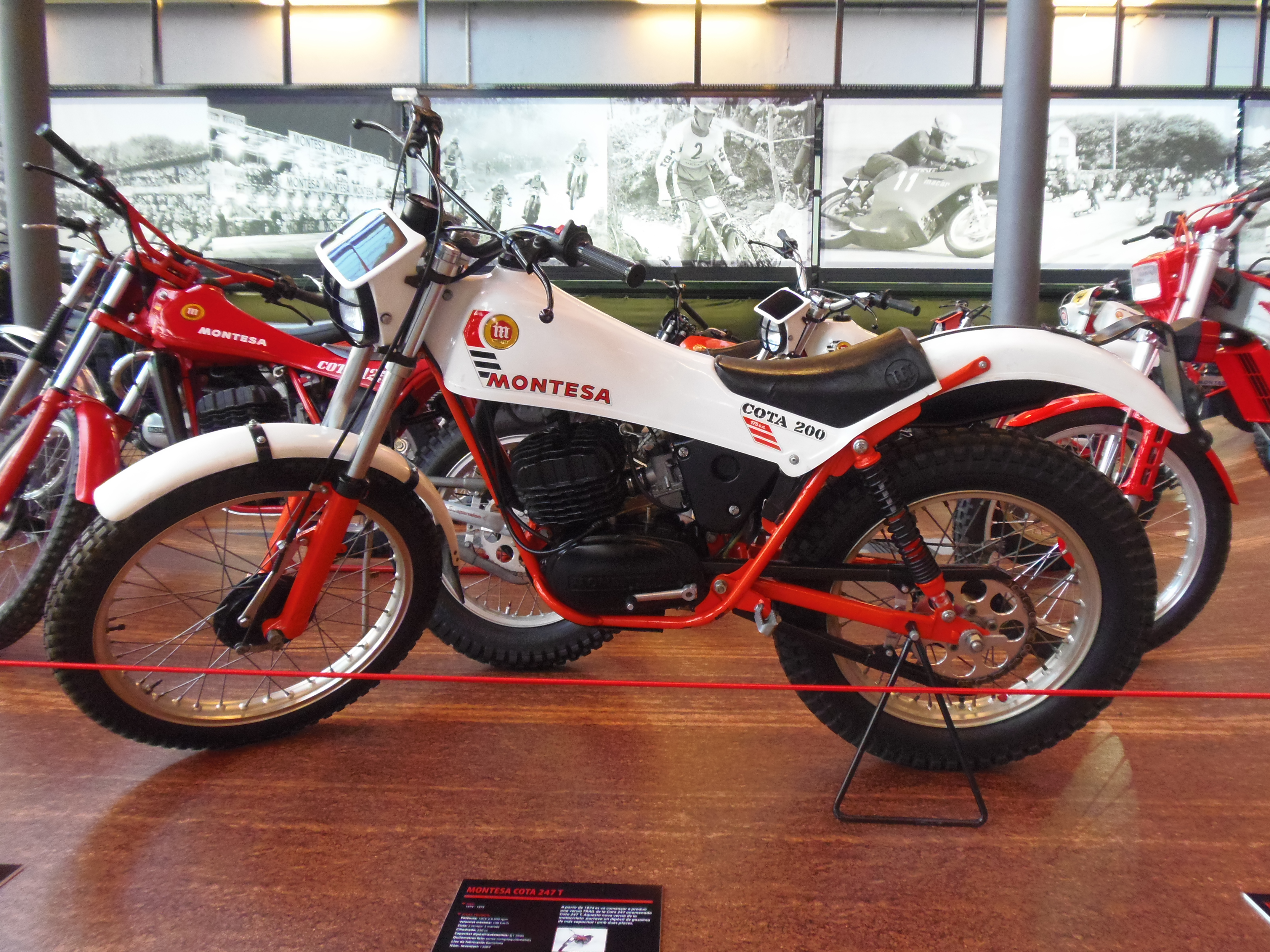 Montesa Cota 200, 1980